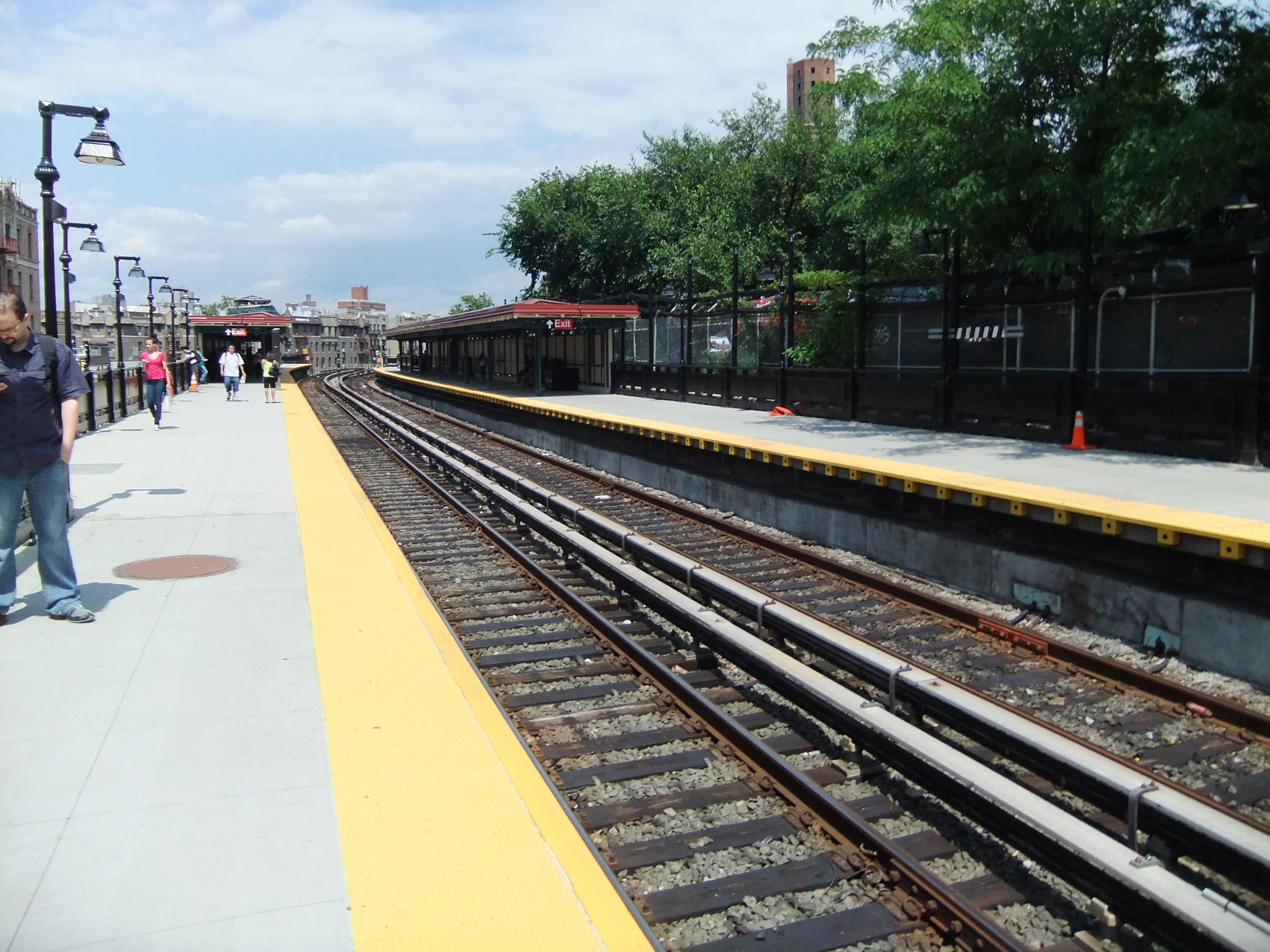 Both platforms at Dyckman Street (Bway-7th Avenue)